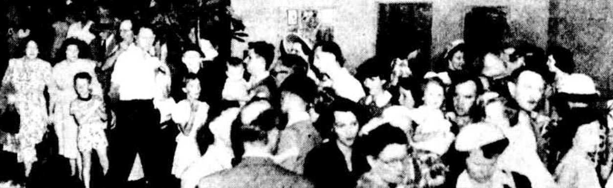 Gathering crowd of visitors at French Painting Today, Brisbane 12th of April 1953. 6000 squeezed through the Queensland National Art Gallery to see the newly - opened French modern art exhibition within 3 hours.